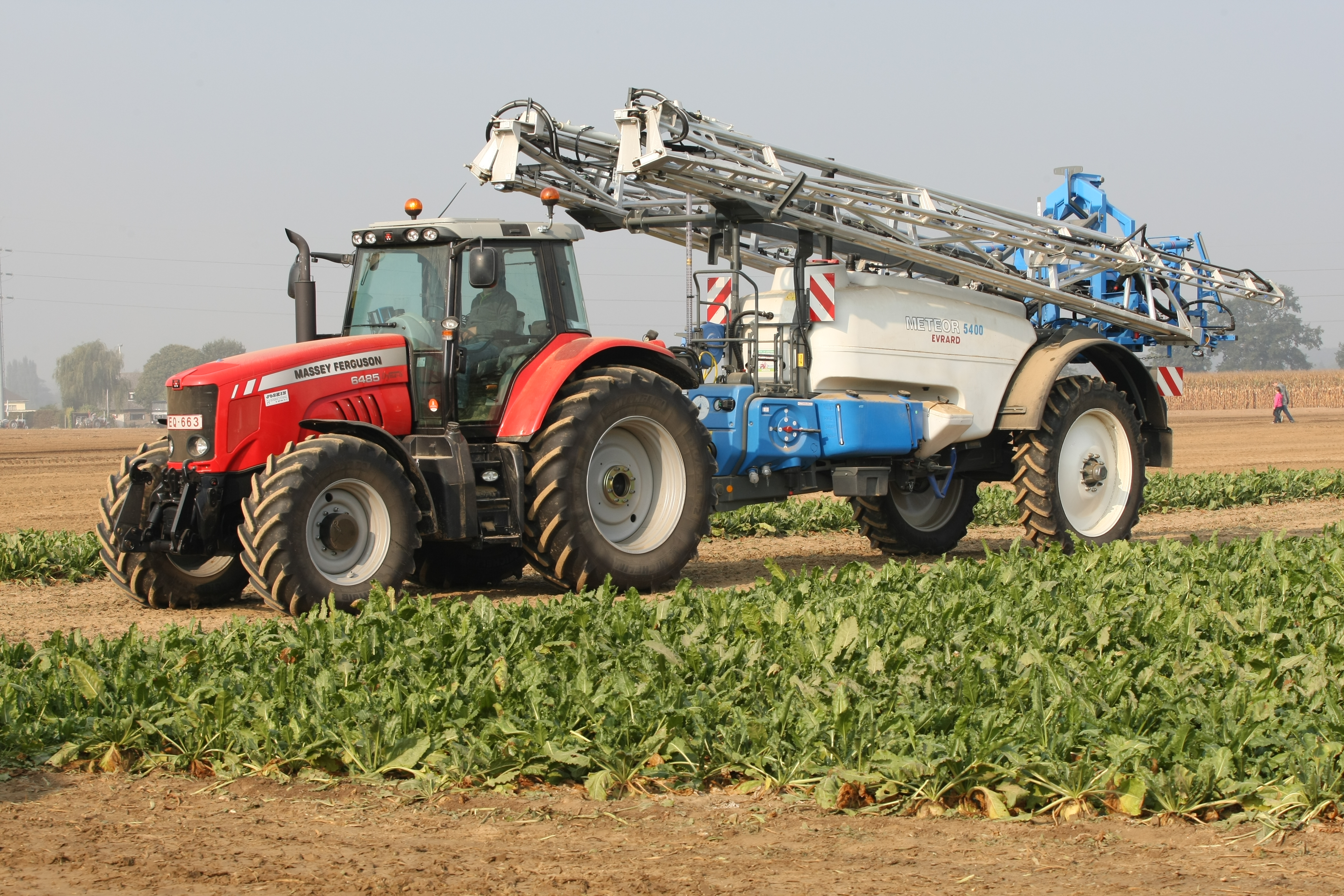 Massey Ferguson 6485 tractor, Evrard Meteor 5400 field sprayer